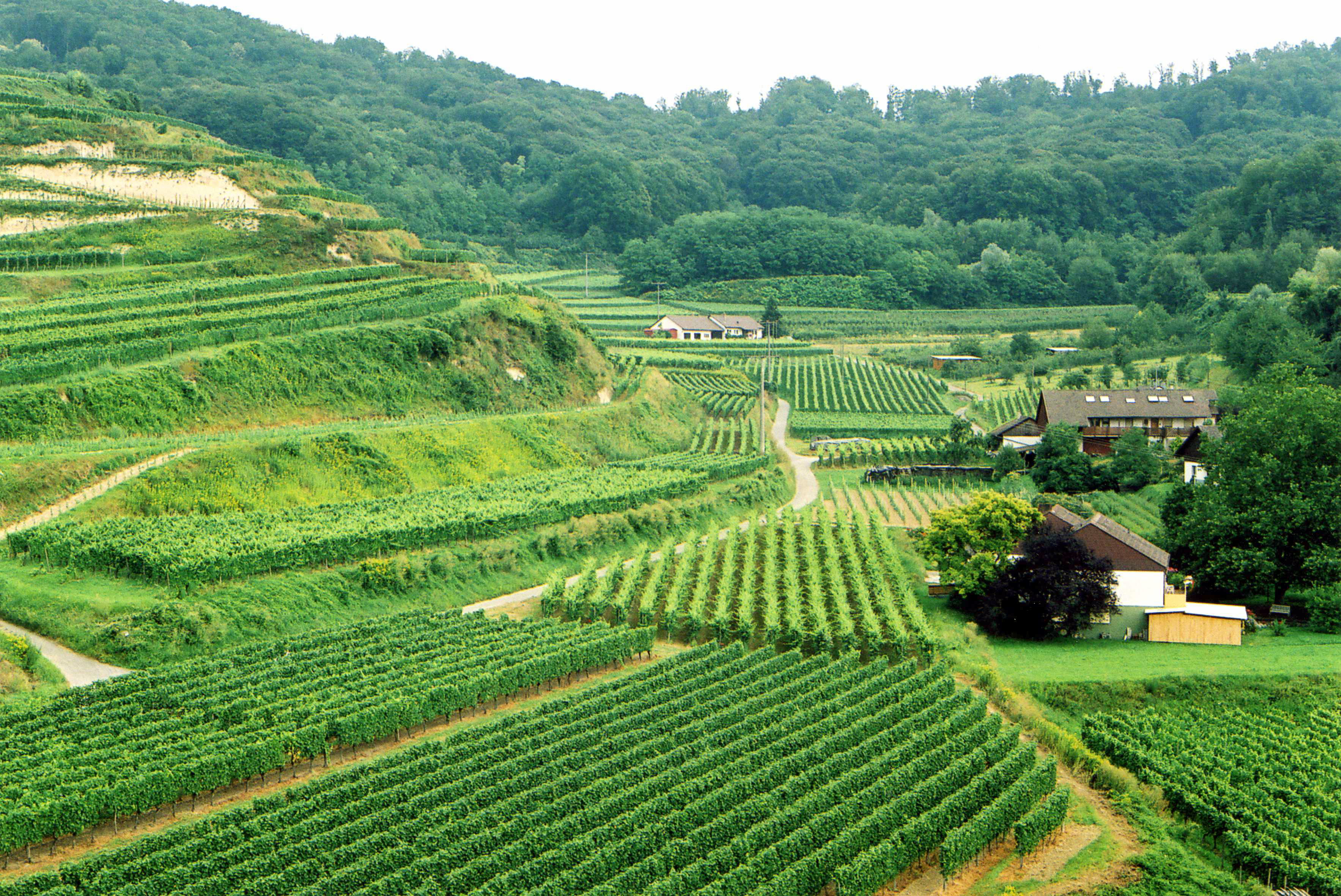 Vineyards below the Totenkopf (556 m) at Bickensohl, Kaiserstuhl, Baden.